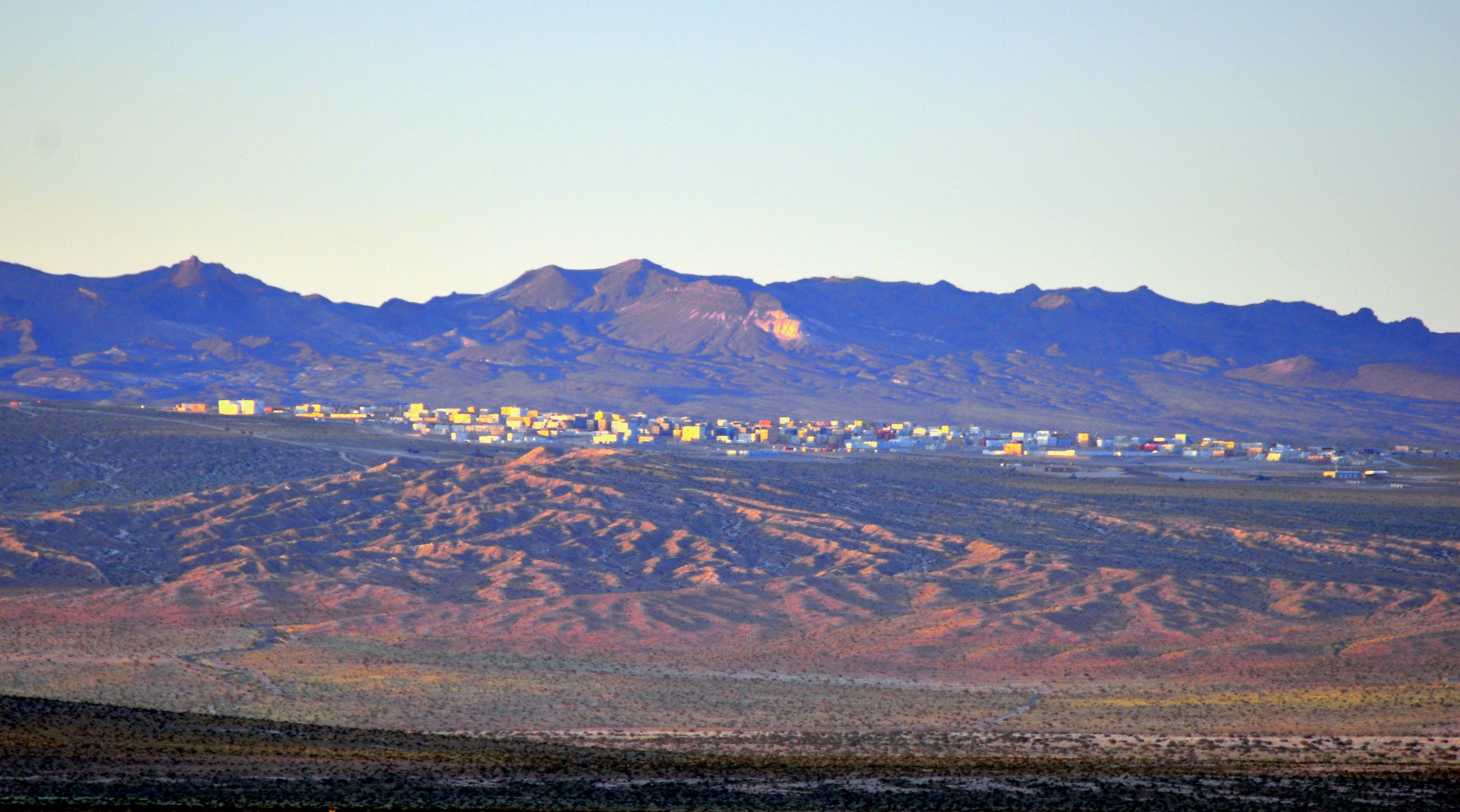 29 Palms Military Base practice area, Landers, California, taken just before sunset, Spring, of 2019